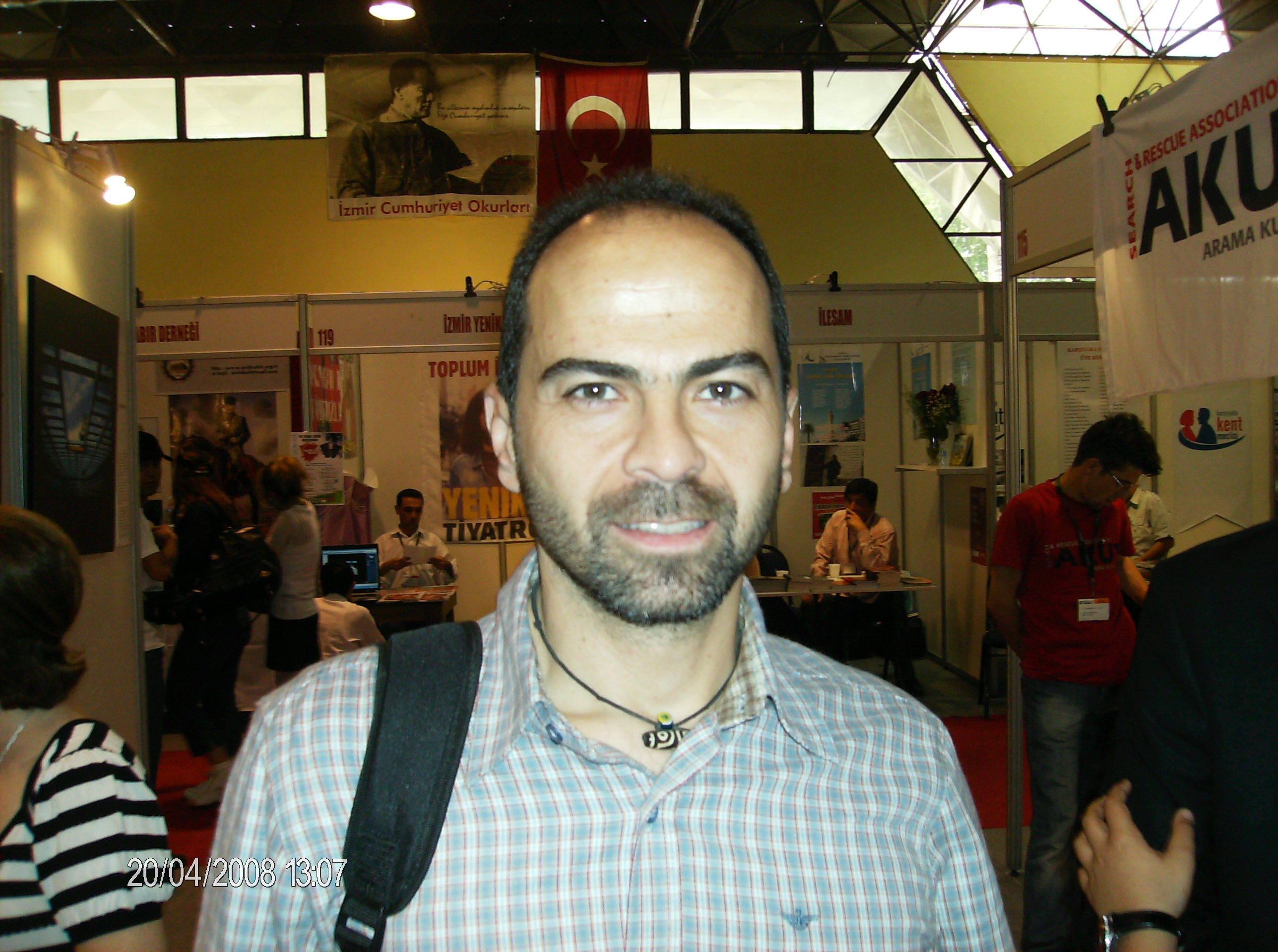 Nasuh Mahruki.